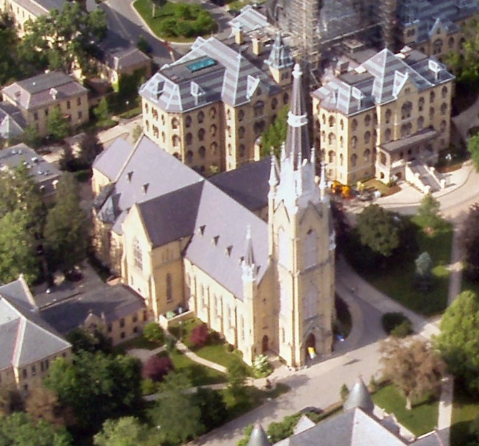 Basilica of the Sacred Heart, University of Notre Dame